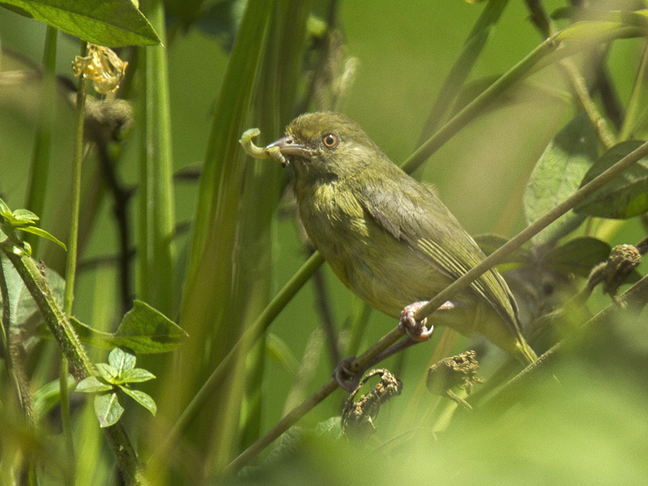 Olivaceous Greenlet - South Ecuador_S4E2555